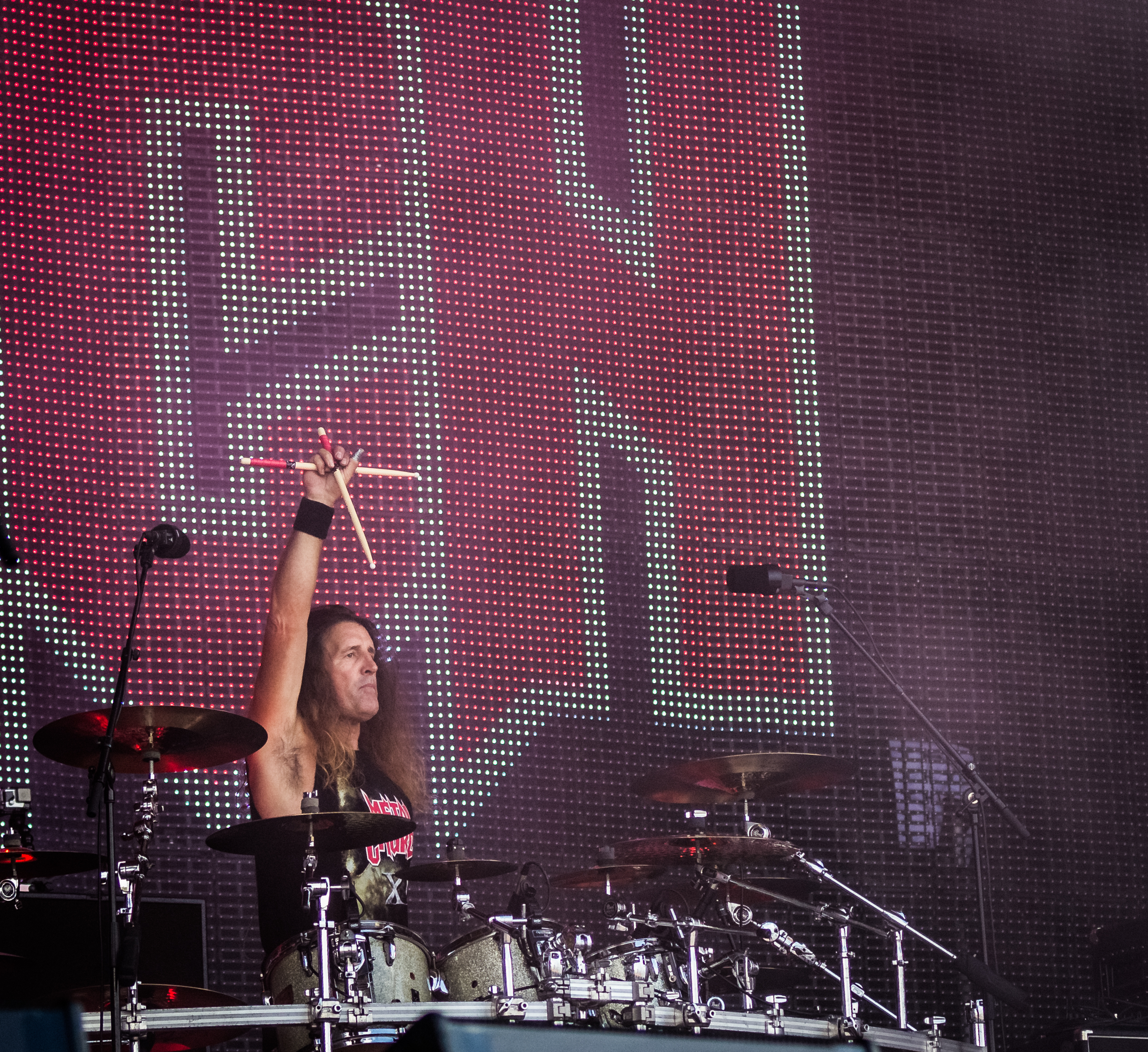 Metal Church - Wacken Open Air 2016